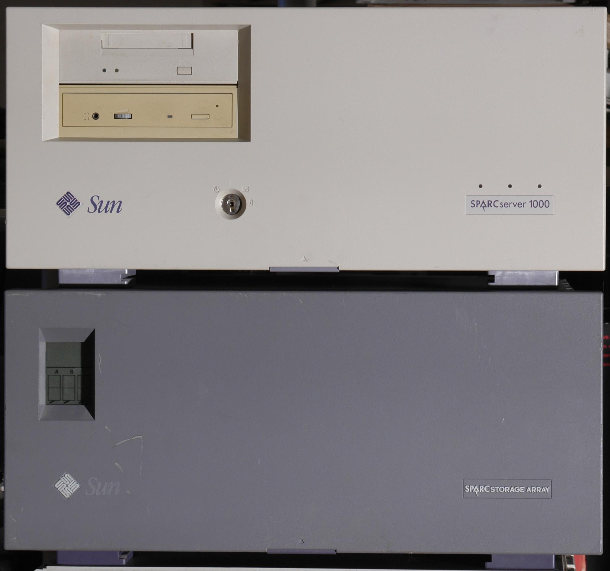 A Sun SPARCserver-1000 computer with Sparc Storage Array disk array.